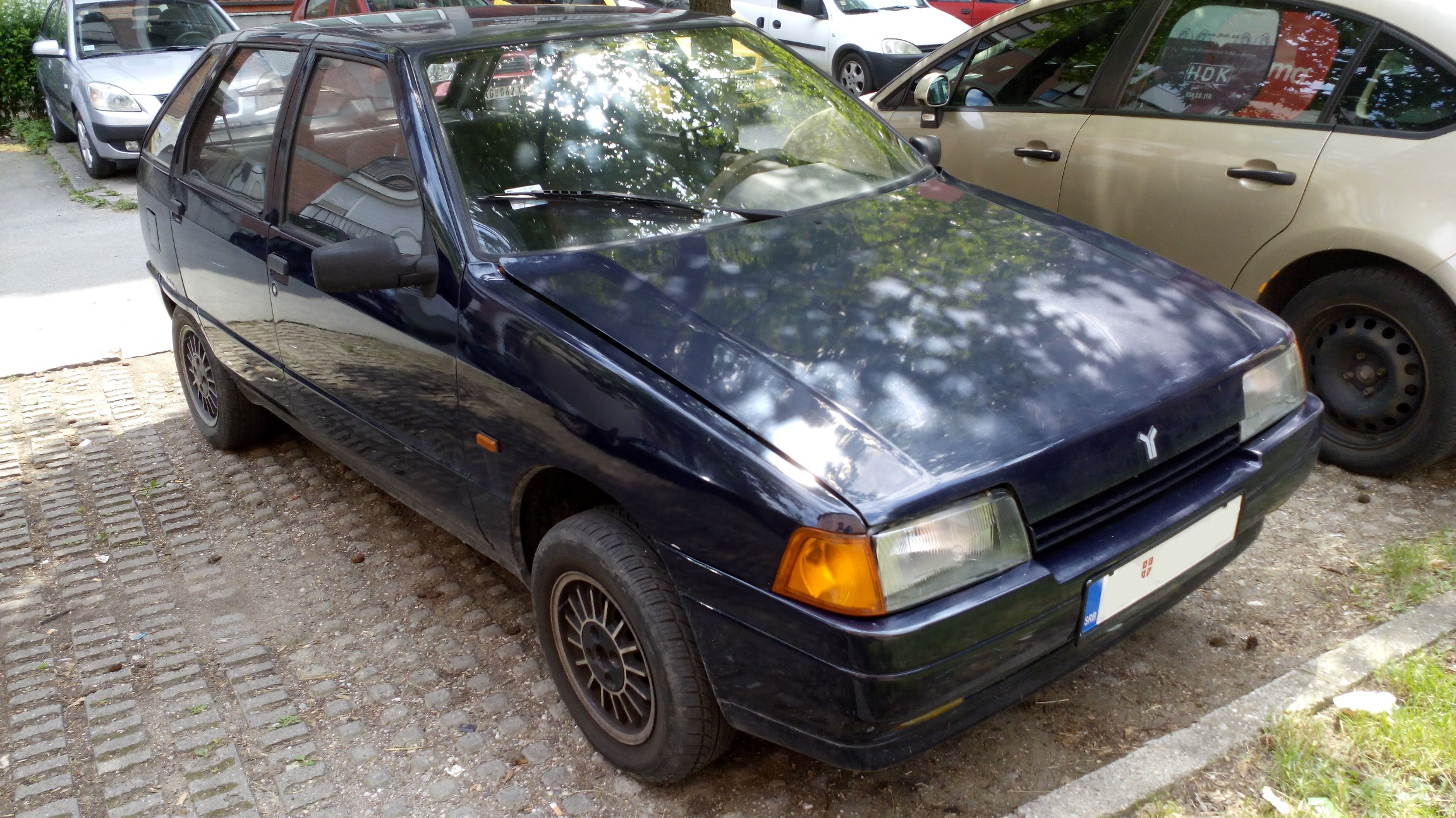 Yugo Florida 1.4 EFI Automatic. Version of Florida with automatic gearbox. Also has front power windows.